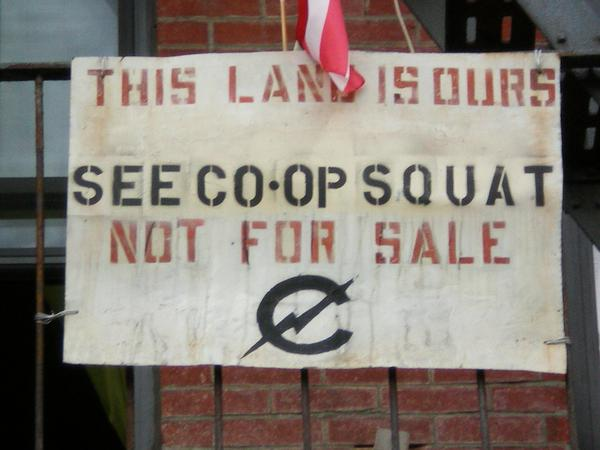 C Squat